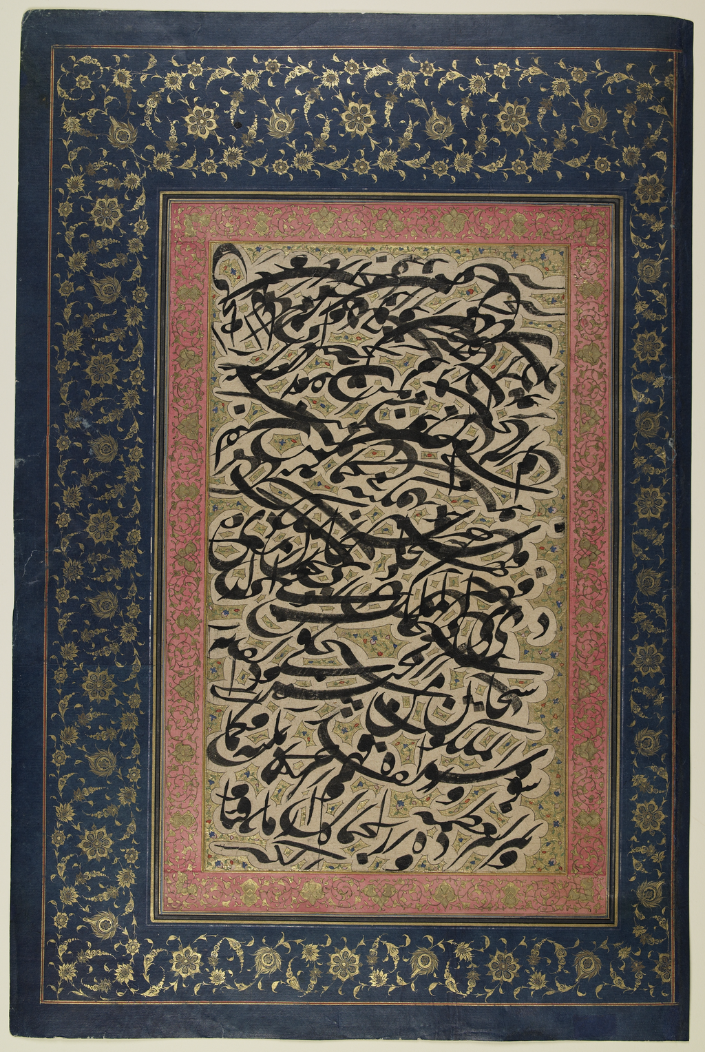 This calligraphic sheet includes a number of diagonal words and letters used in combinations facing upwards and downwards on the folio. The common Persian cursive script nasta'liq is favored over the more "broken" shikastah script. These sheets--known as siyah mashq (literally “black practice”) in Persian--were entirely covered with writing as a means of practicing calligraphy and conserving paper. In time, they became collectible items and thus were signed and dated (this fragment, however, does not appear to be signed or dated). Many fragments such as this one were given a variety of decorative borders and pasted to sheets ornamented with plants or flowers painted in gold. Even the calligraphic exercise itself appears on a background of painted clouds decorated with illuminated flowers. A number of siyah mashq sheets executed at the turn of the 17th century by the great Iranian master of nasta'liq script, 'Imad al-Hasani (died 1615 [1024 AH]), were decorated in gold, preserved in albums (muraqqa'at), and provided with illumination by Muhammad Hadi circa 1747-1759 (1160-1172 AH). Although siyah mashq sheets from around 1600 survive, they seem to have been a particularly popular genre during the second half of the 19th century. Arabic calligraphy; Illuminations; Islamic calligraphy; Islamic manuscripts; Nasta'liq script